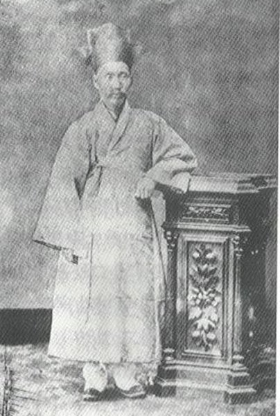 Yun Ung-ryeol, ca.1880's